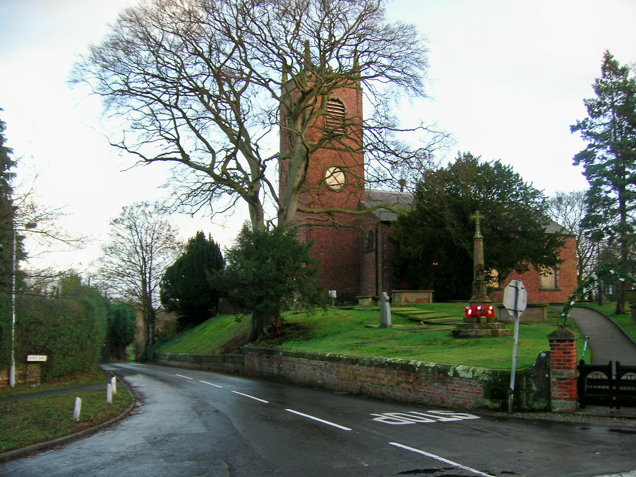 Goostrey church, view looking north